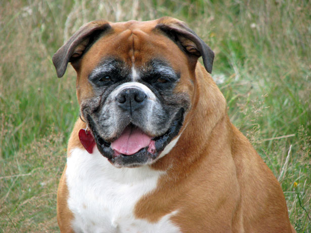 Close-up portrait of an old boxer dog